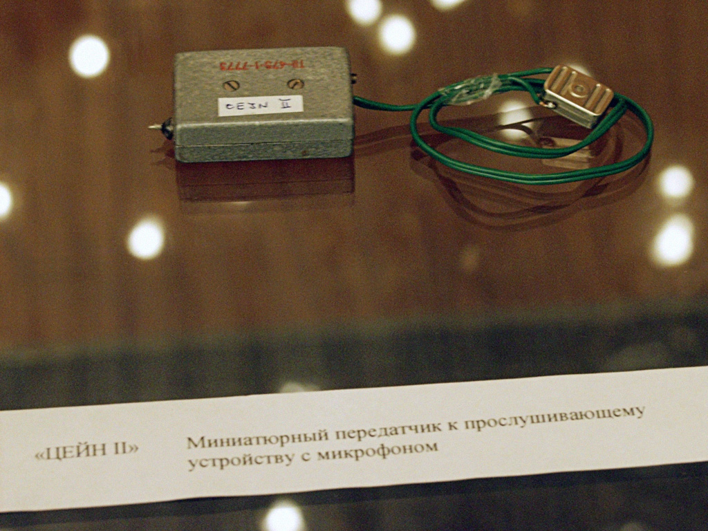 “Secret service gadgetry exhibition at Czech Center in Moscow”. Interceptor and other devices of the disbanded secret service of communist Czechoslovakia were exhibited at the Czech Center in Moscow in 2003. One of the exhibits, a miniature transmitting set and a tap with a microphone